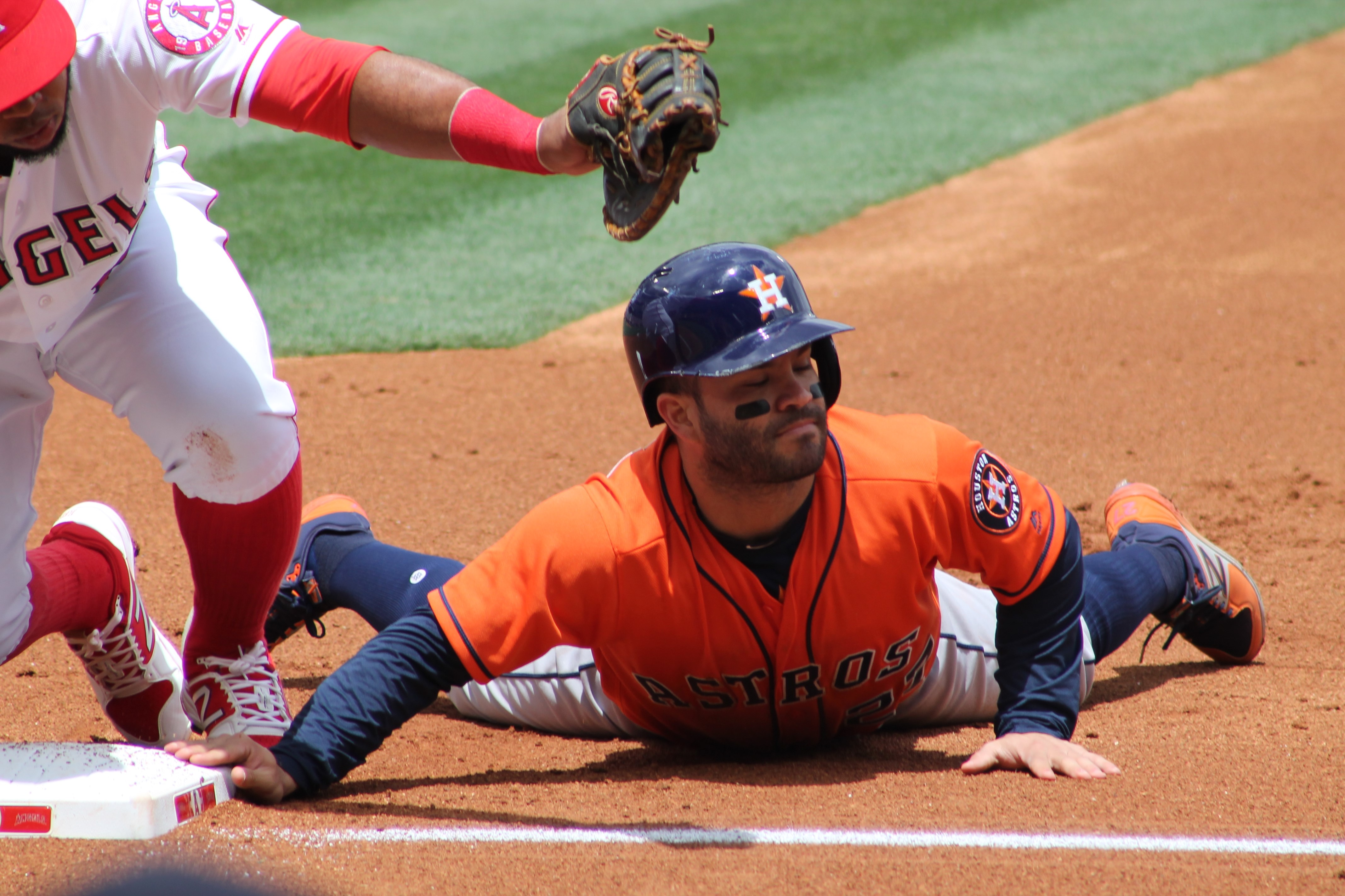 Houston Astros baseball player José Altuve is picked off of first base during a May 2017 game in Anaheim. First baseman Luis Valbuena applies the tag on Altuve.